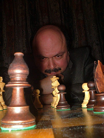 Gábor Kállai chess player with a chess table